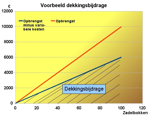 Example contribution margin.